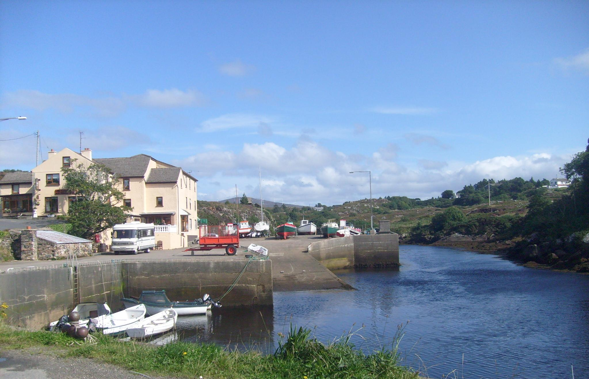 Bunbeg Harbour, Gweedore, Co Donegal, Ireland